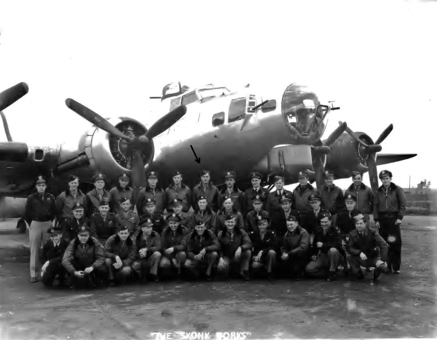 Group photo of pilots and crews from the 482d Bombardment Group - RAF Alconbury, England